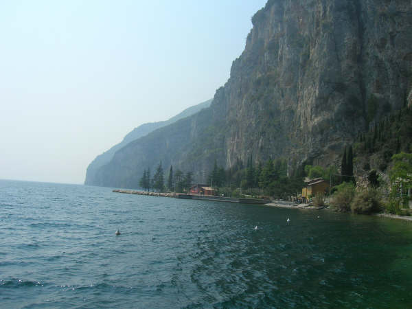 Picture of the harbour of Tignale at the Gardalake.